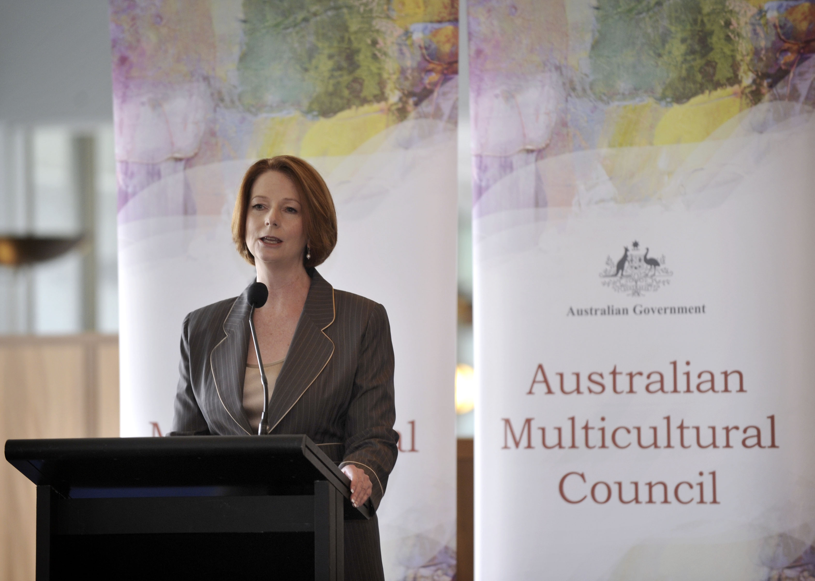 Julia Gillard speaking at the lanch of the Australian Multicultural Council (AMC) and a new local ambassadors program to champion inclusion and highlight the benefits of Australia’s diversity.